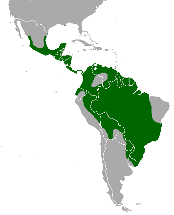 Range map of the Margay (Leopardus wiedii) Source=Base map derived from File:BlankMap-World.png. Data from Don E. Wilson , Russell A. Mittermeier (Hrsg.): Handbook of the Mammals of the World. Volume 1: Carnivores. Lynx Edicions, 2009, ISBN 978-84-96553-49-1, (S. 145 f.) Caso, A., Lopez-Gonzalez, C., Payan, E., Eizirik, E., de Oliveira, T., Leite-Pitman, R., Kelly, M. & Valderrama, C. 2008. Leopardus pardalis. In: IUCN 2010. IUCN Red List of Threatened Species. Version 2010.4. . Downloaded on 25 January 2011.